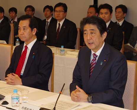 Shinzō Abe, Prime Minister, attended a meeting of the Council on National Strategic Special Zones, Cabinet Office with Kōzō Yamamoto, Minister of State for the Promotion of Overcoming Population Decline and Vitalizing Local Economy in Japan, at the Prime Minister's Official Residence in Chiyoda Ward, Tōkyō Metropolis on December 12, 2016.